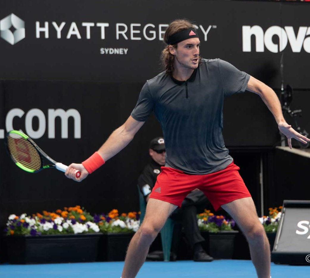 Sydney, Australia - 10 January 2019: Greek tennis player Stefanos Tsitsipas hitting a forehand during his quarterfinal match against Andreas Seppi from Italy at the Sydney International tennis on Ken Rosewall Arena, Sydney Olympic Park. (Photo by Rob Keating/robiciatennis.com)